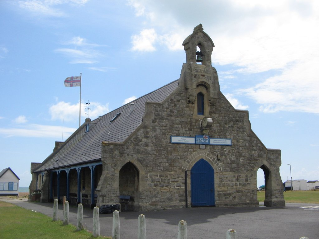 RNLI lifeboat station on The Strand, Walmer, Deal, Kent. Photographed by Stewart Adcock, 05 July 2005, 10:07am.